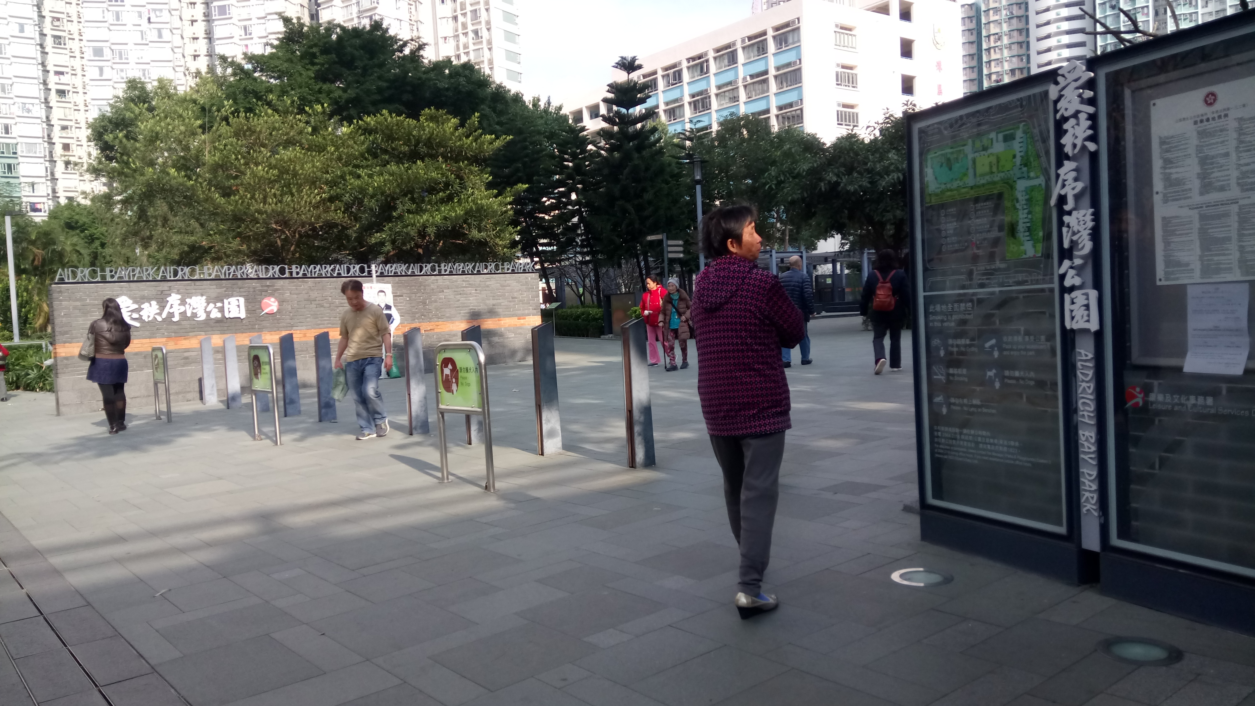 Aldrich Bay Park